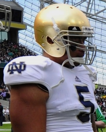 Notre Dame QB Everett Golson during coin toss vs Navy at Aviva Stadium in 2012